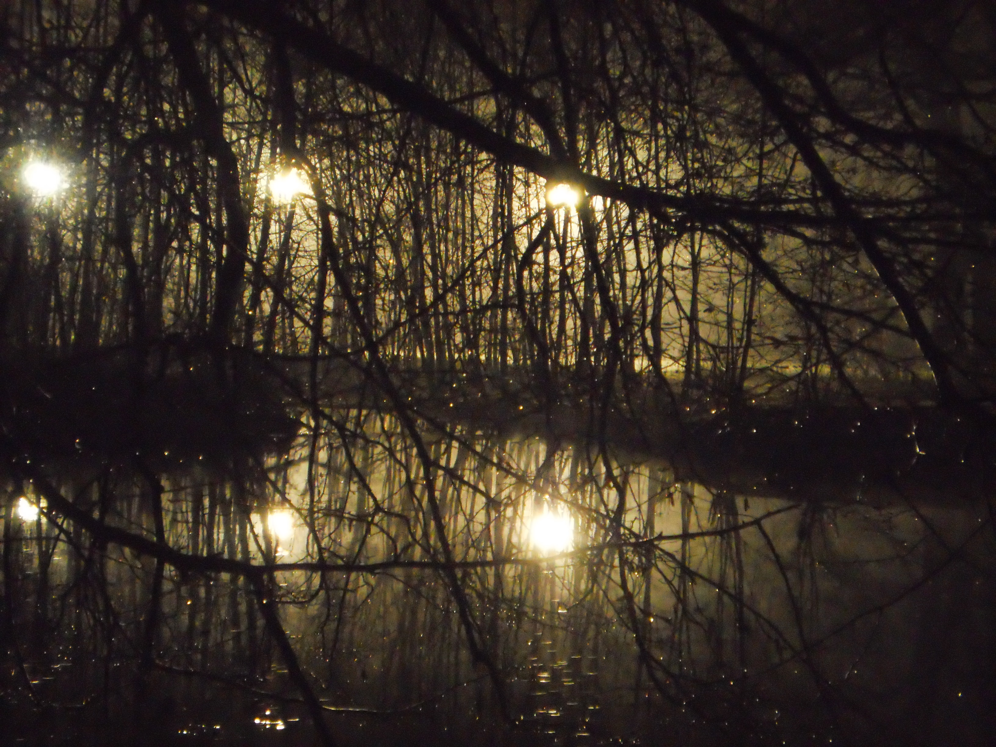 Lahn river bank and reflections of trees at night in the South of Marburg-Wehrda. Spot lights of a sports ground behind.